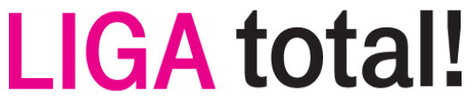 Logo of LIGA total!, former German IPTV-Programme